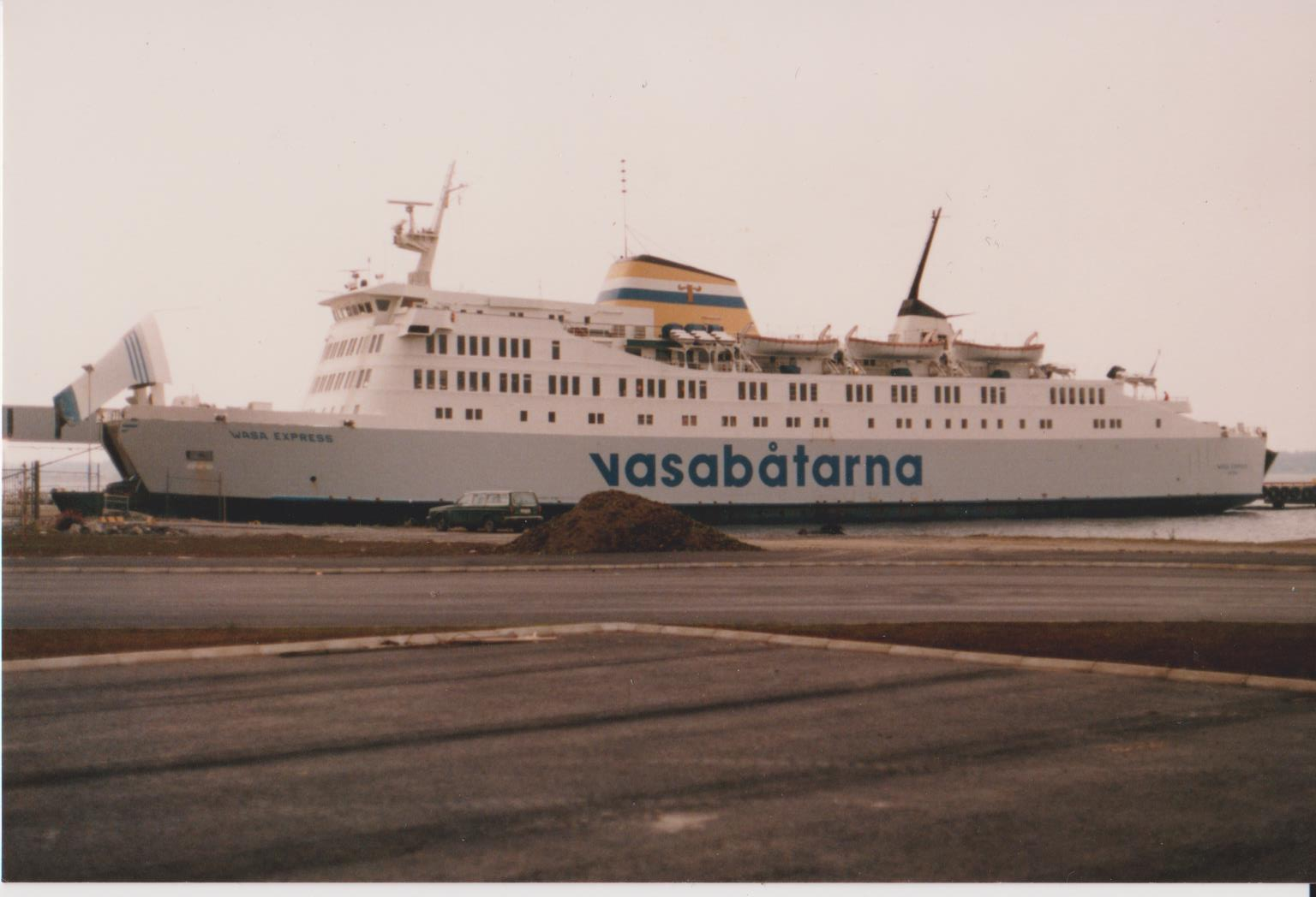 Wasa Express (former Viking 1) in Port of Vaasa in 1983 or 1984